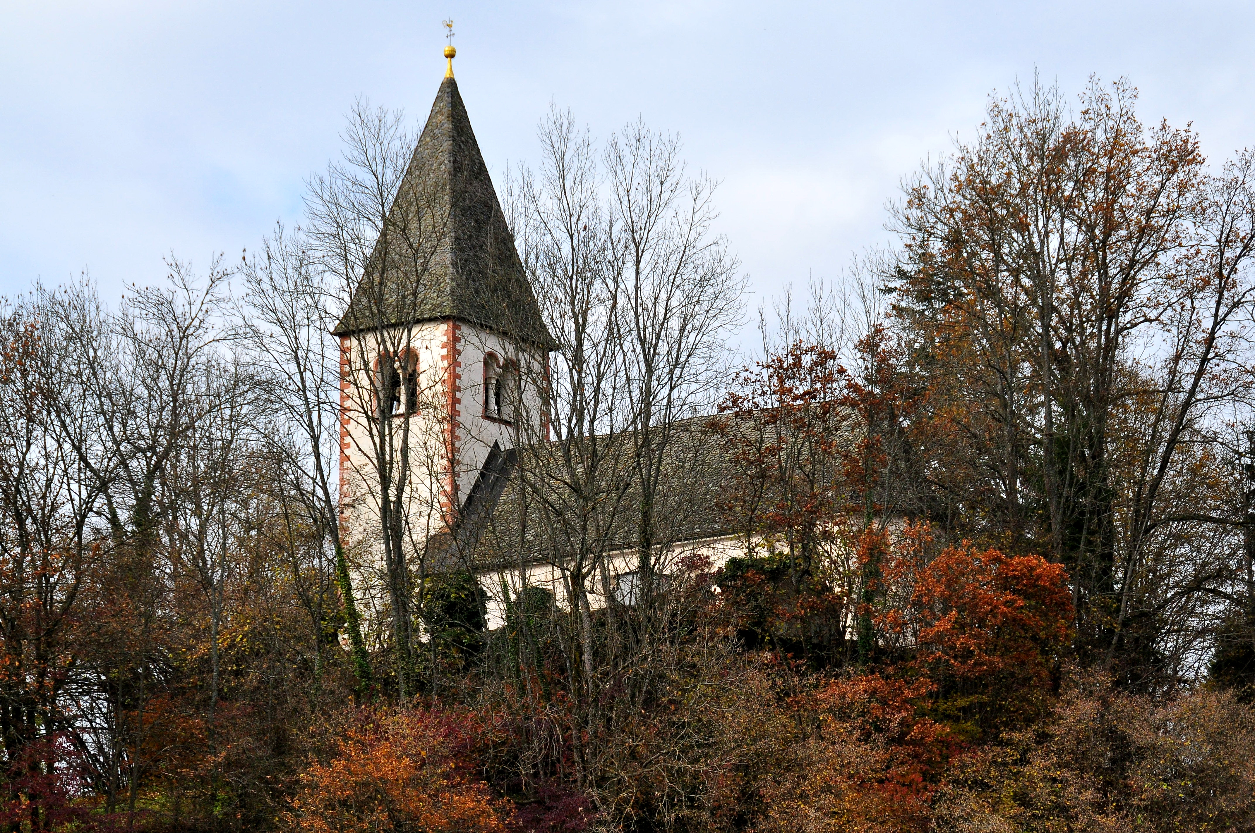 Subsidiary church Saint Andreas at Seltenheim, situated in the 14th district Woelfnitz of the Carinthian capital Klagenfurt on the Lake Woerth, Carinthia, Austria